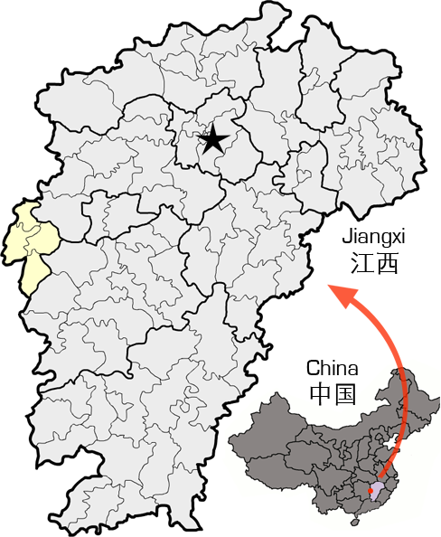 Map showing the location of Pinxiang within Jiangxi Province China